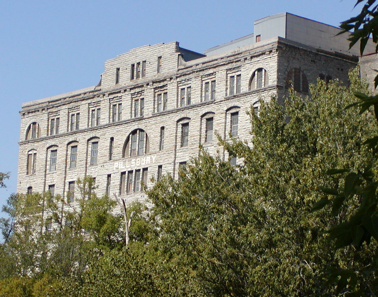 taken by William Wesen 09/13/2006 Category:Images of Minneapolis, Minnesota